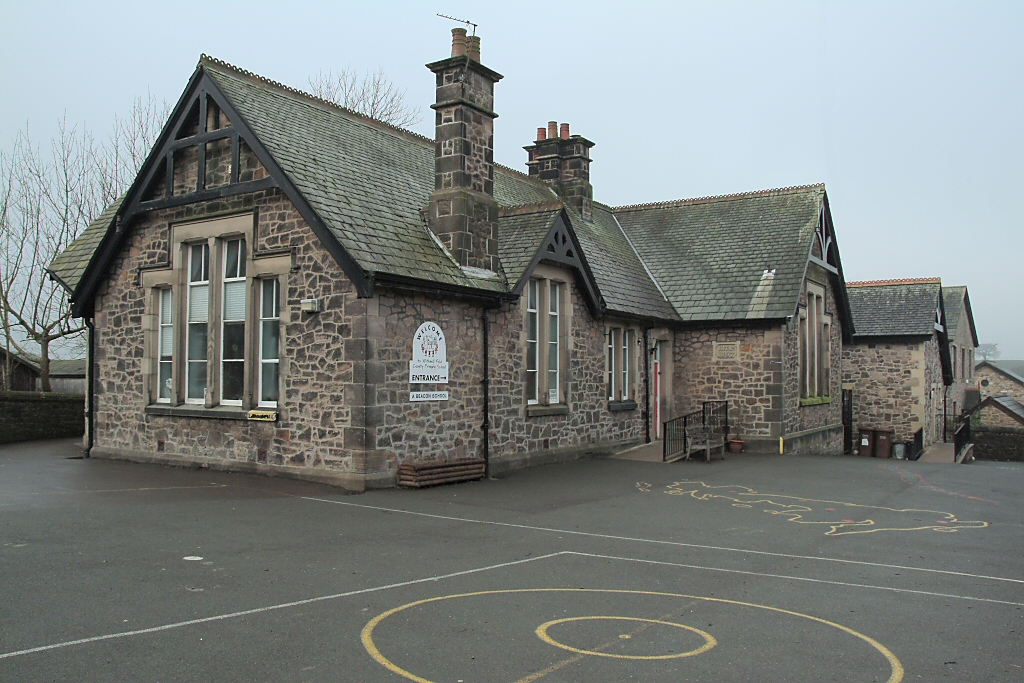 Withnell Fold School built by Herbert Thomas Parke in 1897 [05020720w]